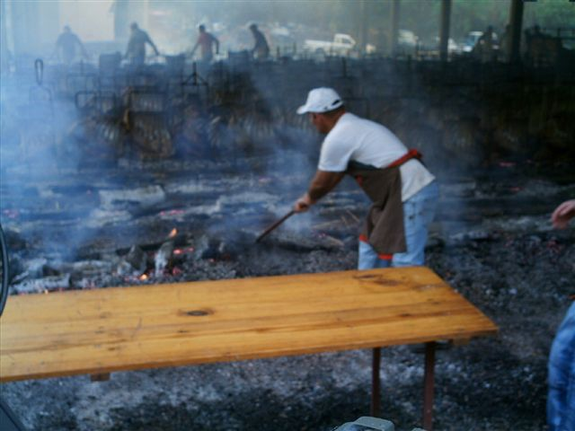 Brazilian barbecue